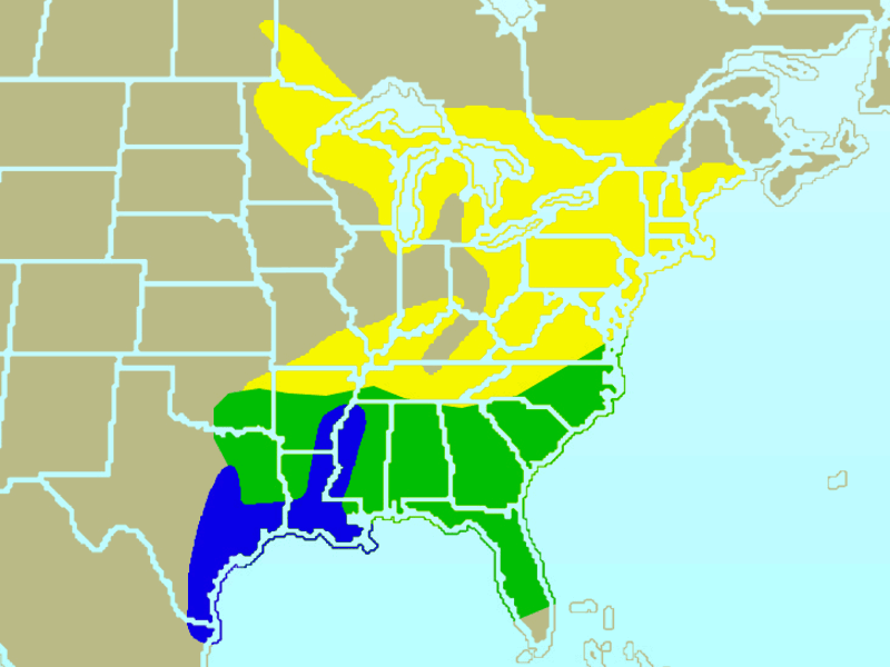 Approximate range/distribution map of the Pine Warbler (Dendroica pinus). In keeping with WikiProject: Birds guidelines, yellow indicates the summer-only range, blue indicates the winter-only range, and green indicates the year-round range of the species.